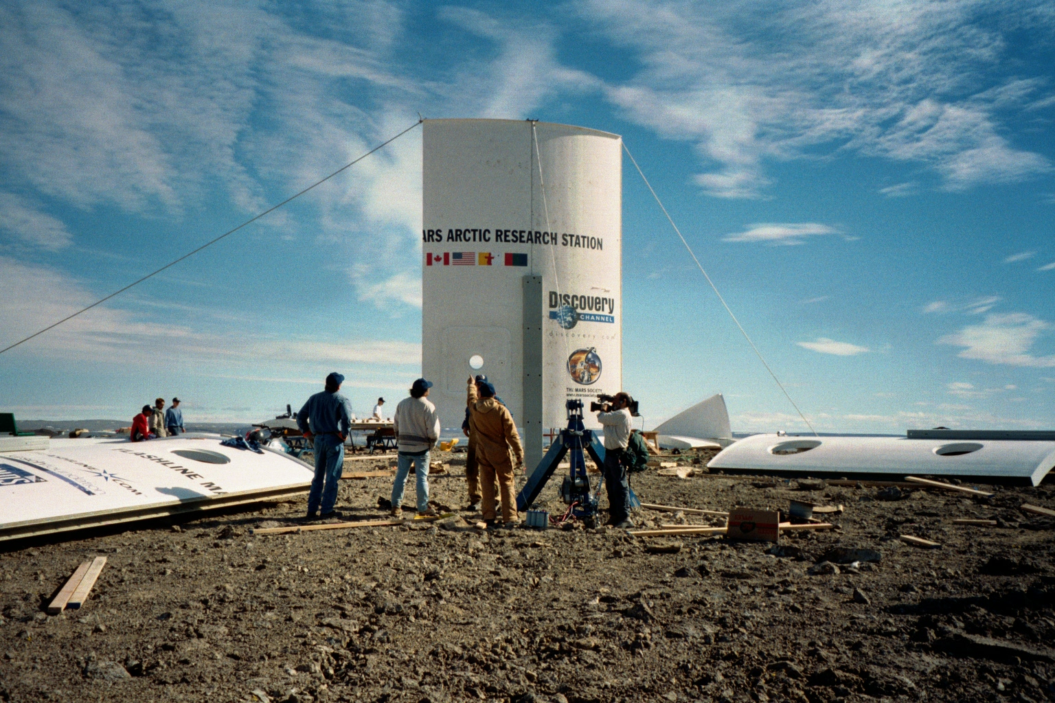 The first set of wall panels are erected for the Flashline Mars Arctic Research Station, on Devon Island in the Canadian Arctic.